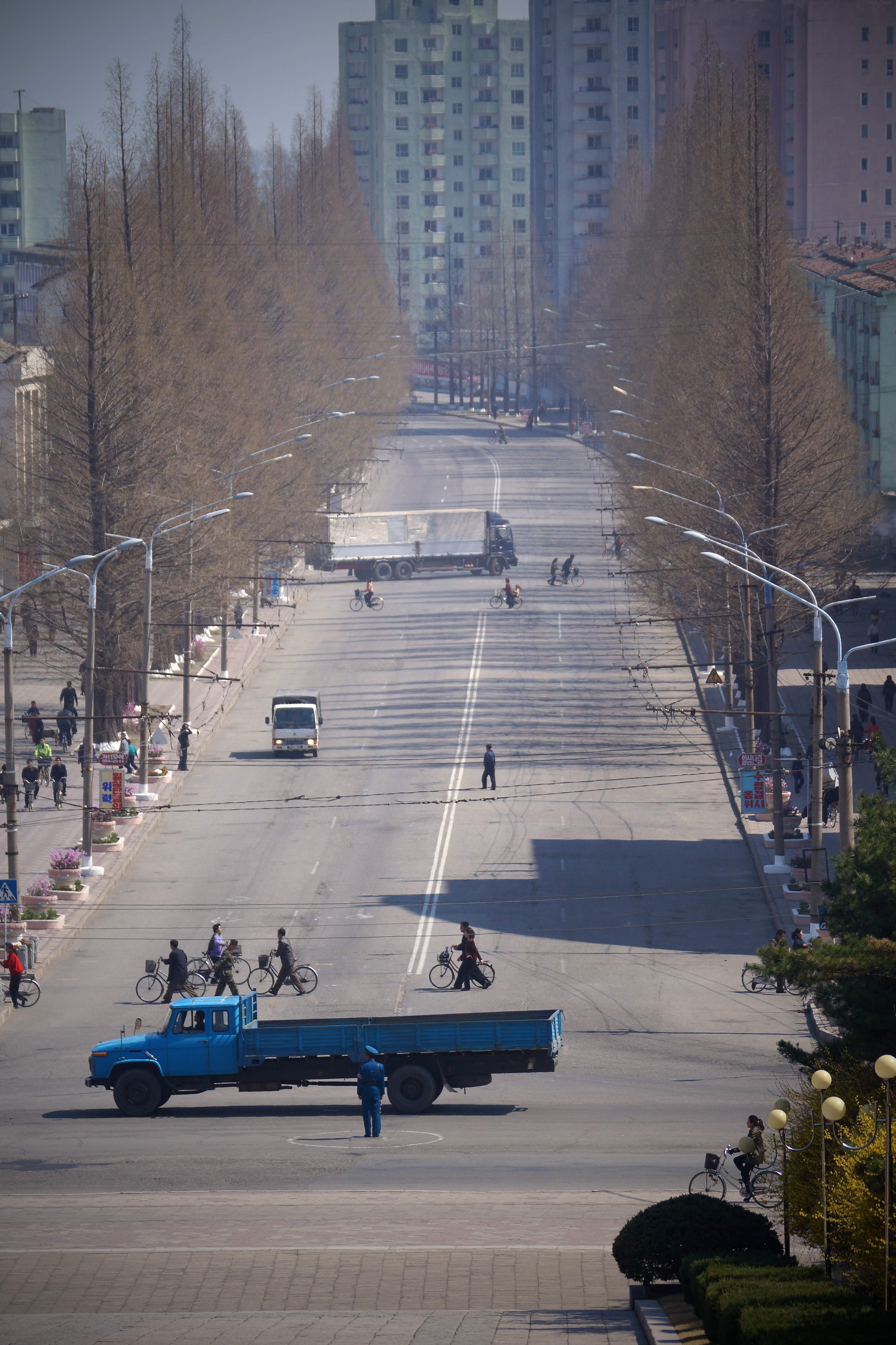 April 2012 trip to DPRK, North Korea for the 100th year birthday celebrations for Kim Il Sung - check out my North Korea blog at